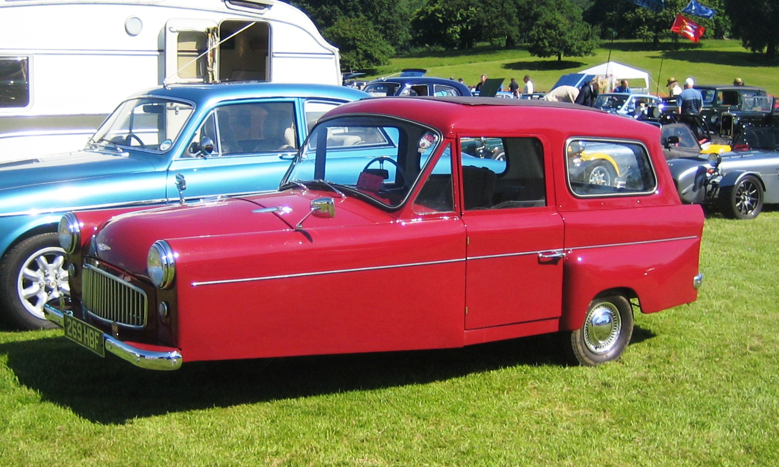 Bond Minicar at Old Timers Rally at South Weald Park near Brentwood